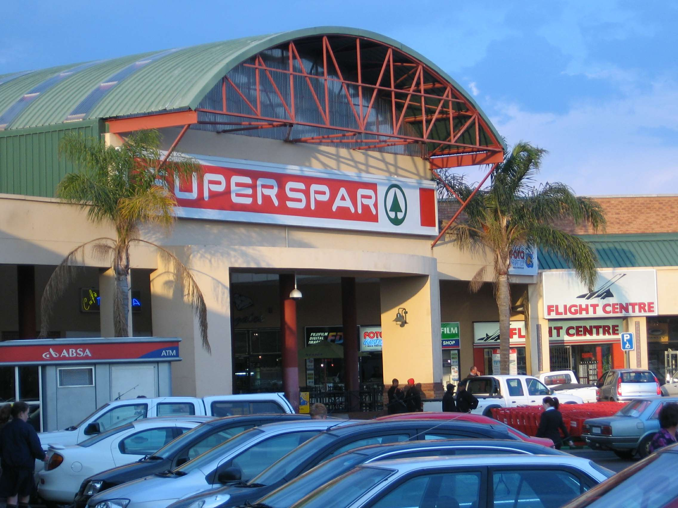 SPAR grocery store in Johannesburg, South Africa